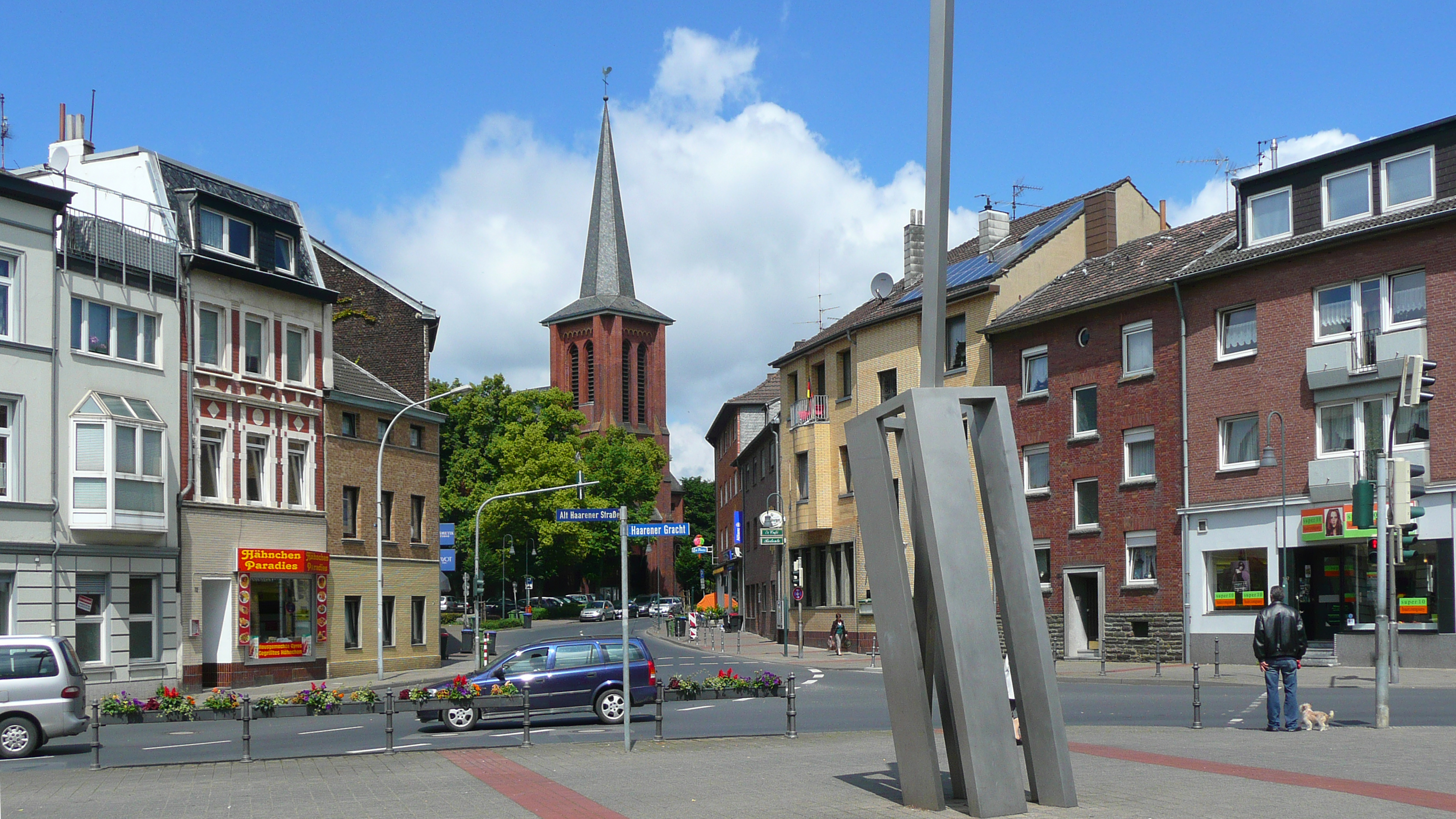 Center of Haaren (Aachen), sculpture in front made by Joachim Bandau, church St. Germanus in the background